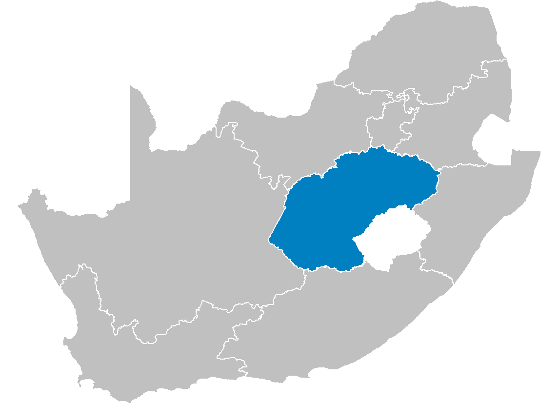 Map of South Africa showing the Free State province after the 12th amendment of the constitution in December 2005.